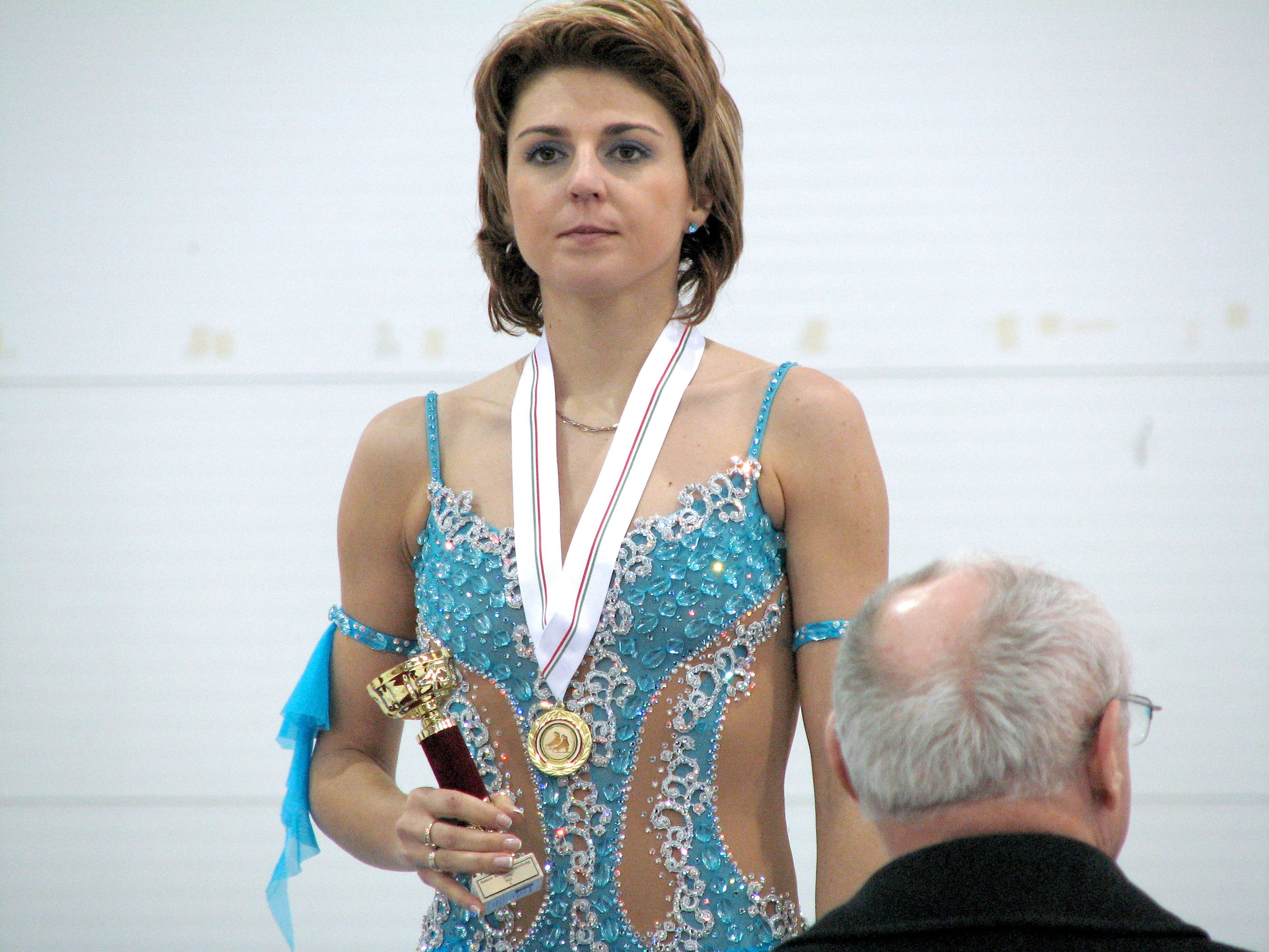 Júlia Sebestyén, Hungarian figure skater at the 2007-2008 Hungarian National Championship